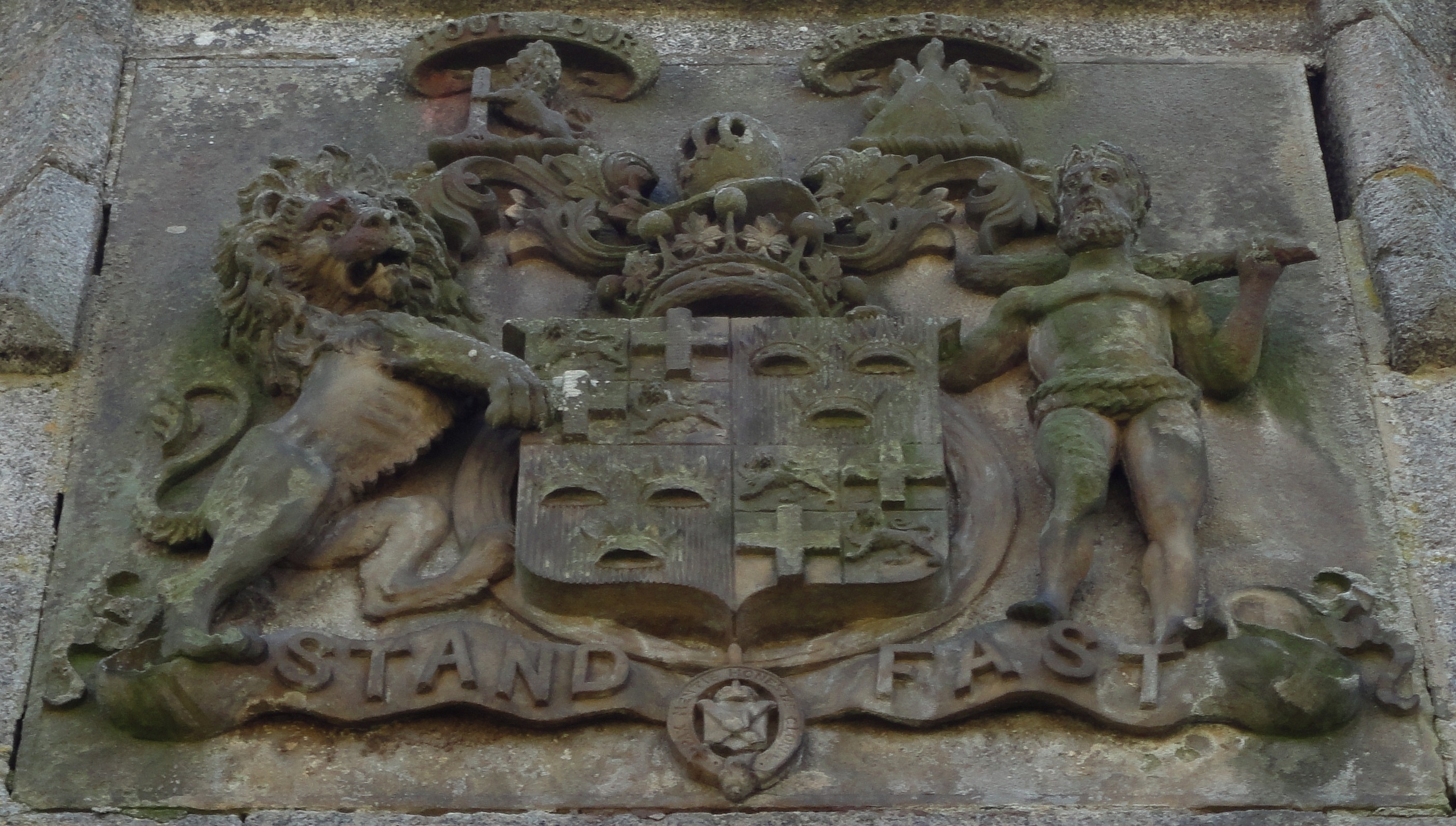 Duthil Old Parish Church and Churchyard - Grant Mausoleum adjacent to the Old Parish Church: arms